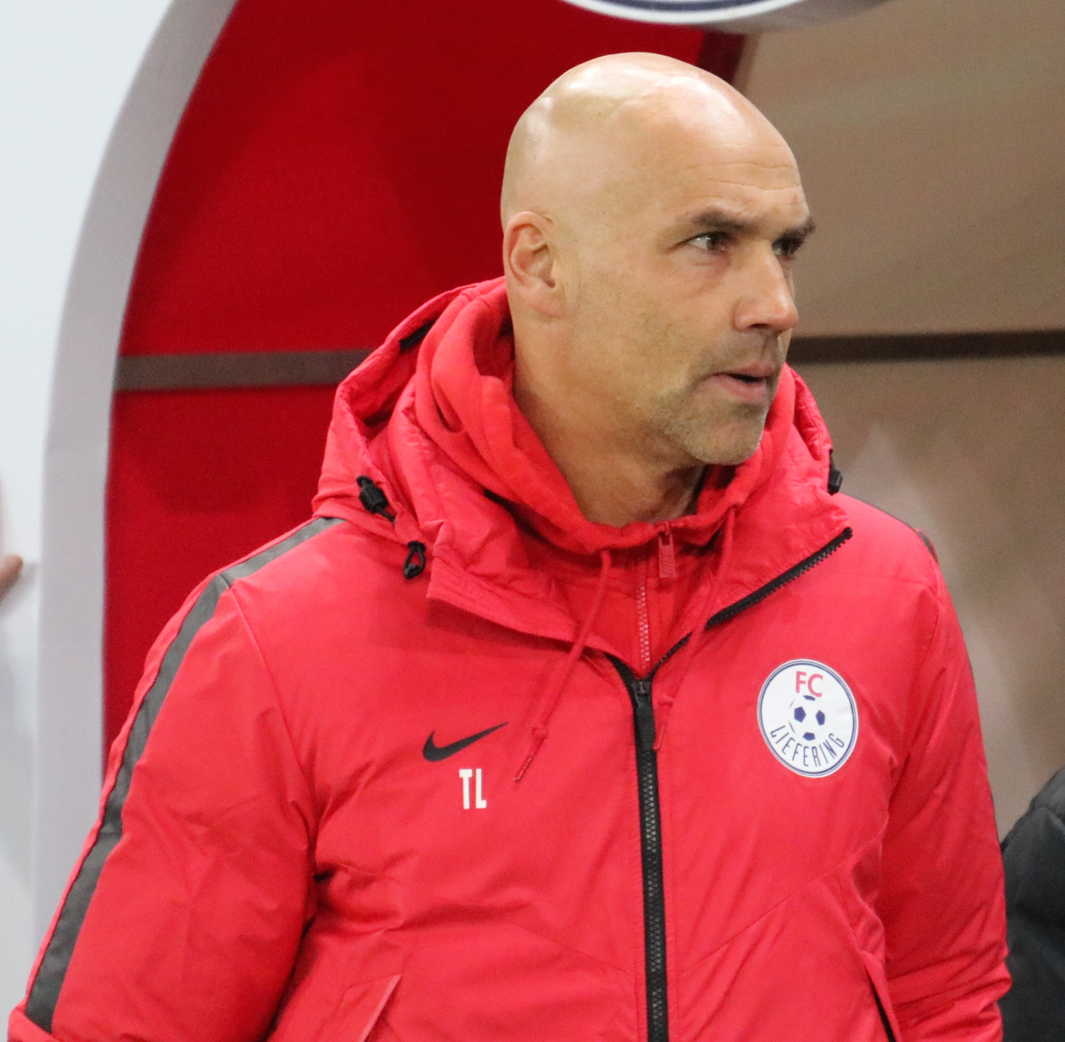 league match Austria 2nd league